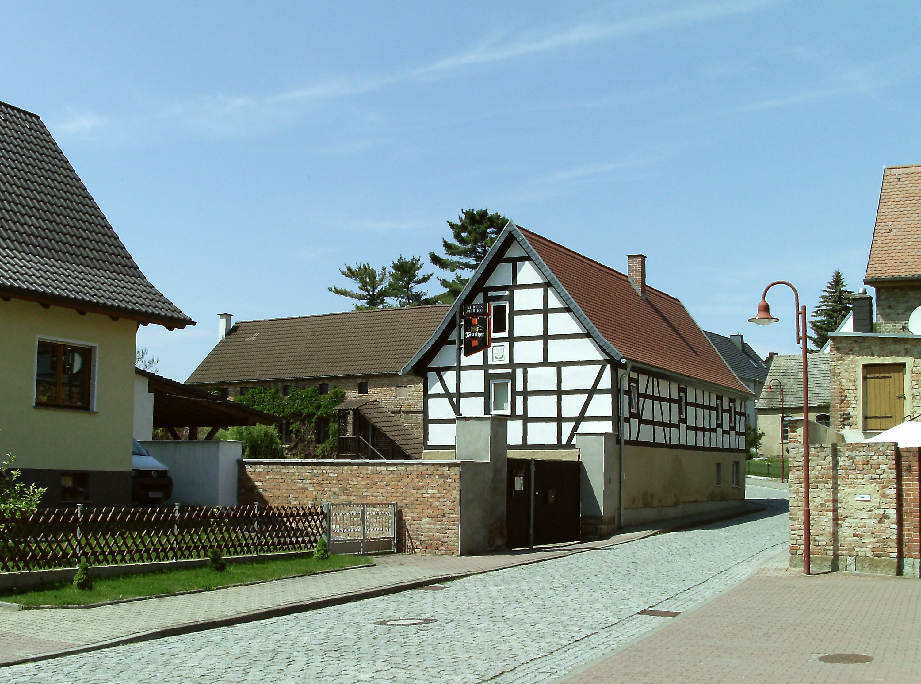 Farmstead in Storkau (Weissenfels, district of Burggenlandkreis, Saxony-Anhalt)